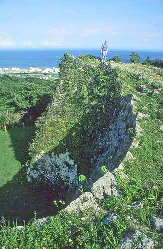 Wall at ruins of a gusuku in Okinawa, Japan.